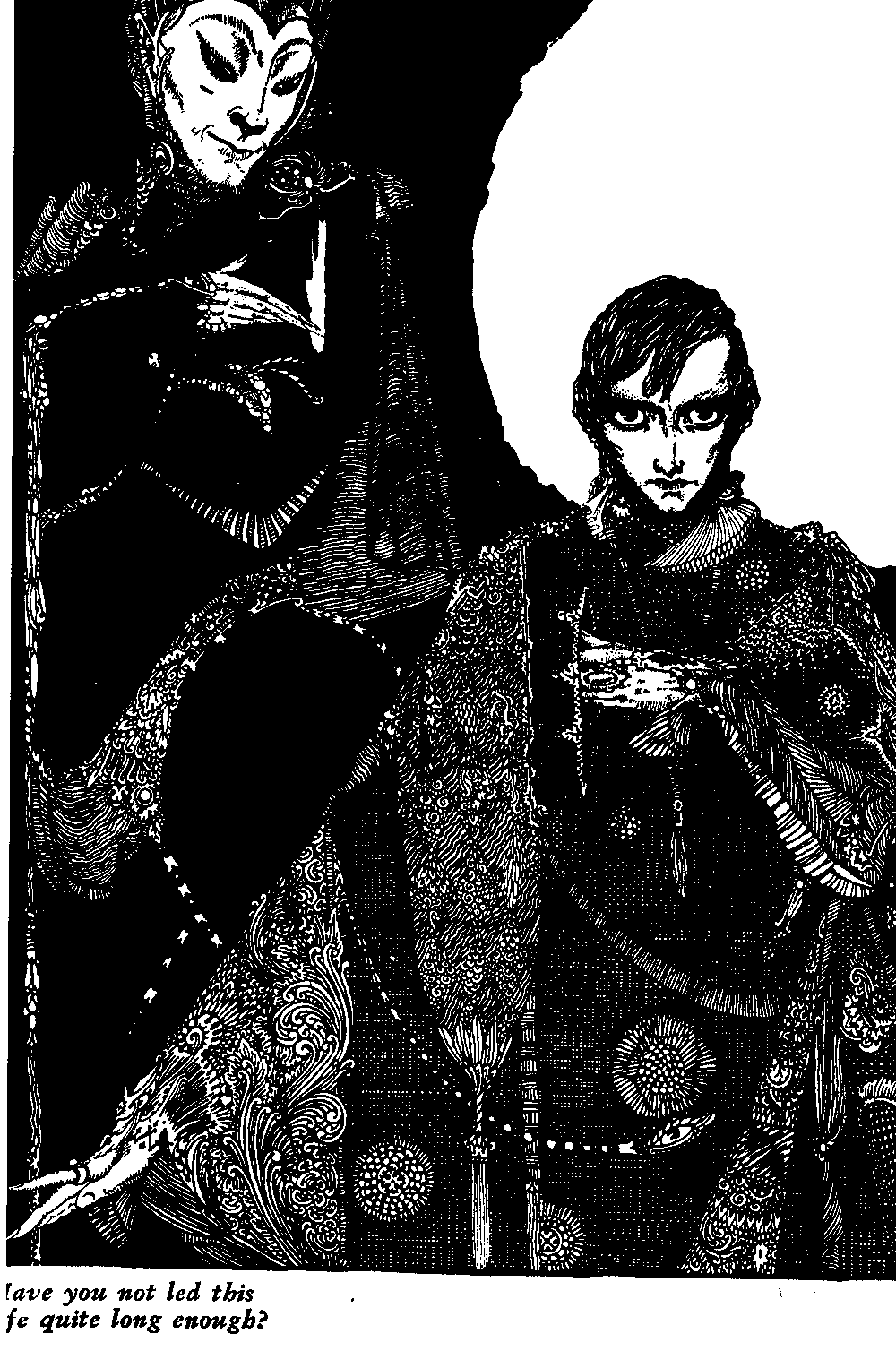 Page 004 of von Goethe's Faust, translated by Bayard Taylor and illustrated by Harry Clarke.